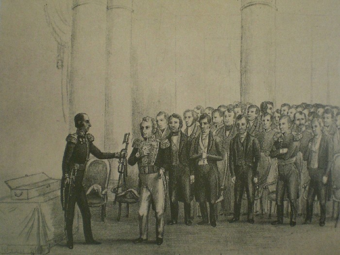 José Antonio Páez receives from Carlos Soublette the Sword of Honor on March 19, 1843.